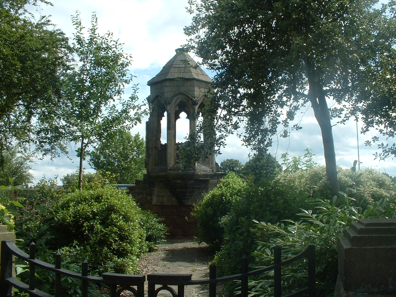 Image of the refectory pulpit of Shrewsbury Abbey